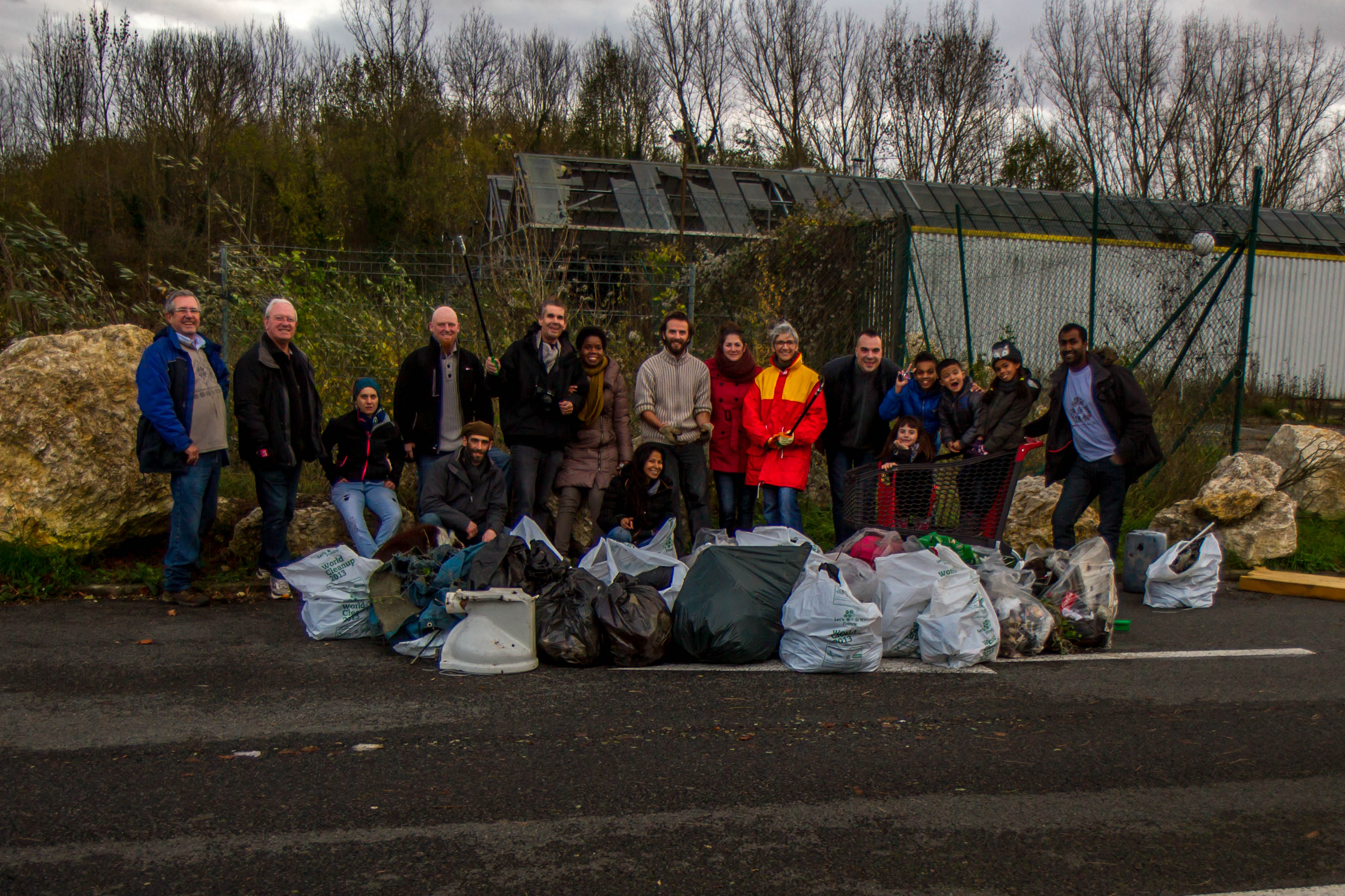 Lets do it! France 2015